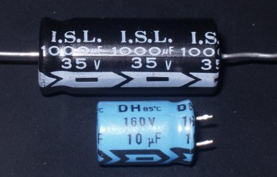 Radial (blue) and axial (black) electrolytic capacitors.